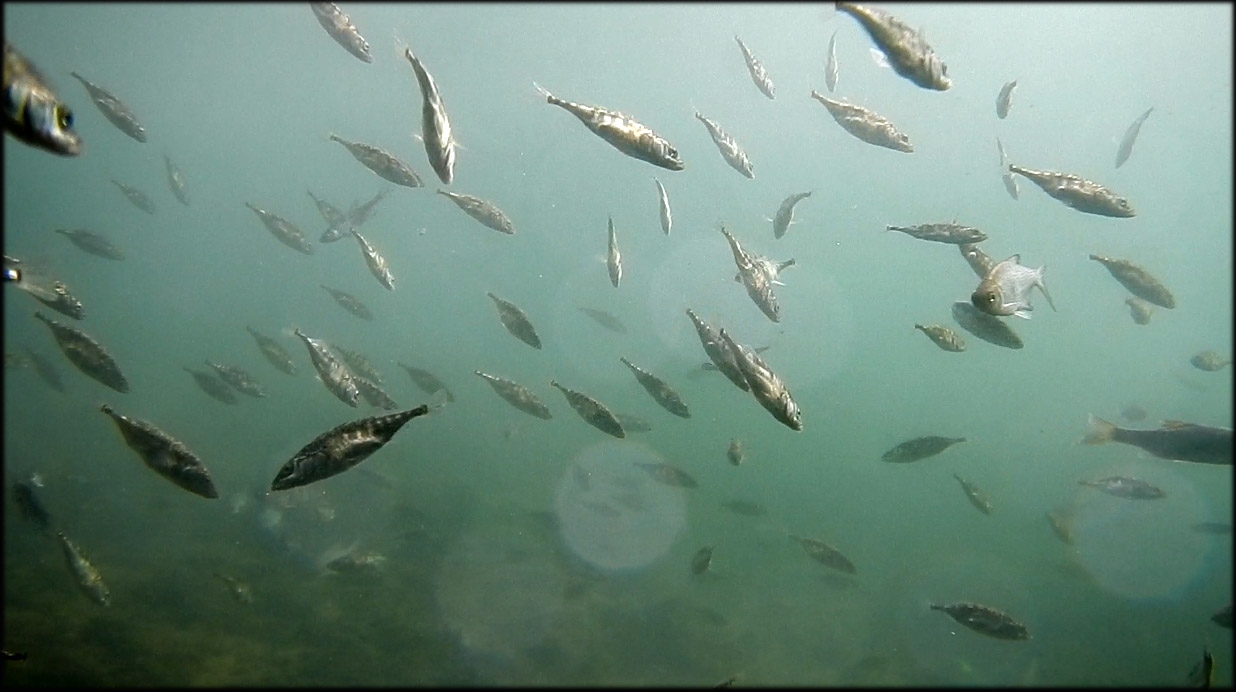 Eating sticklebacks in a mixing zone water (at confluency). Nord-Pas-de-Calais, north of France